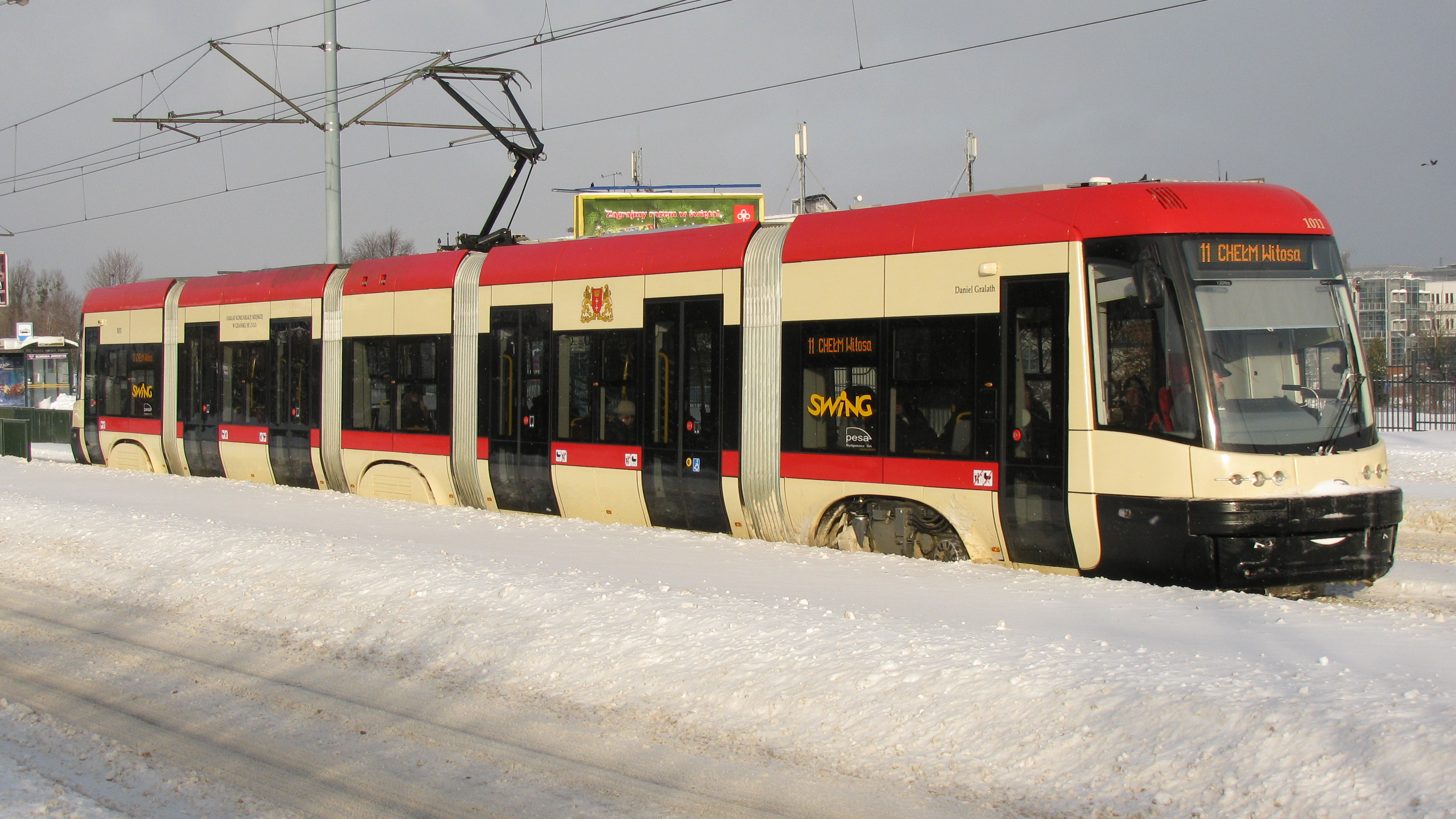 A PESA 120Na tram in Gdańsk (Poland), serial number 1011, named after Daniel Gralath (XVIII Century) from Gdańsk.